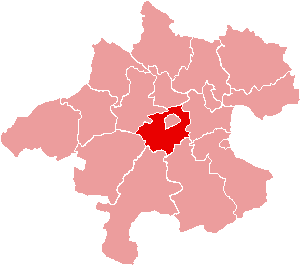 Location of Bezirk Wels-Land within the Land of Upper Austria